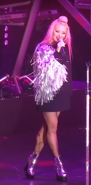 Delia, singer from RomaniaRomână: Concert Delia - Welcome to Deliria